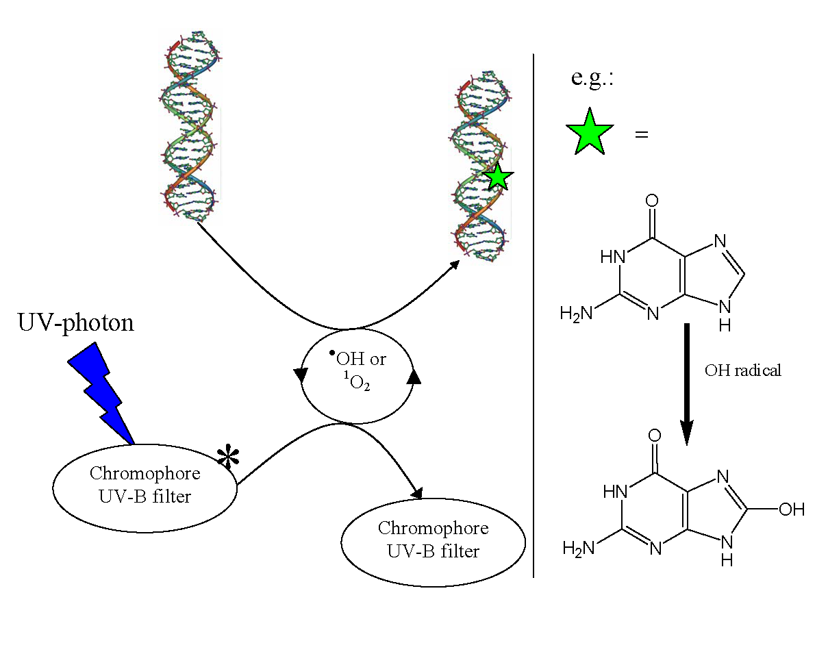 UV-induced DNA damage. This is the indirect damage (as opposed to the direct DNA damage)